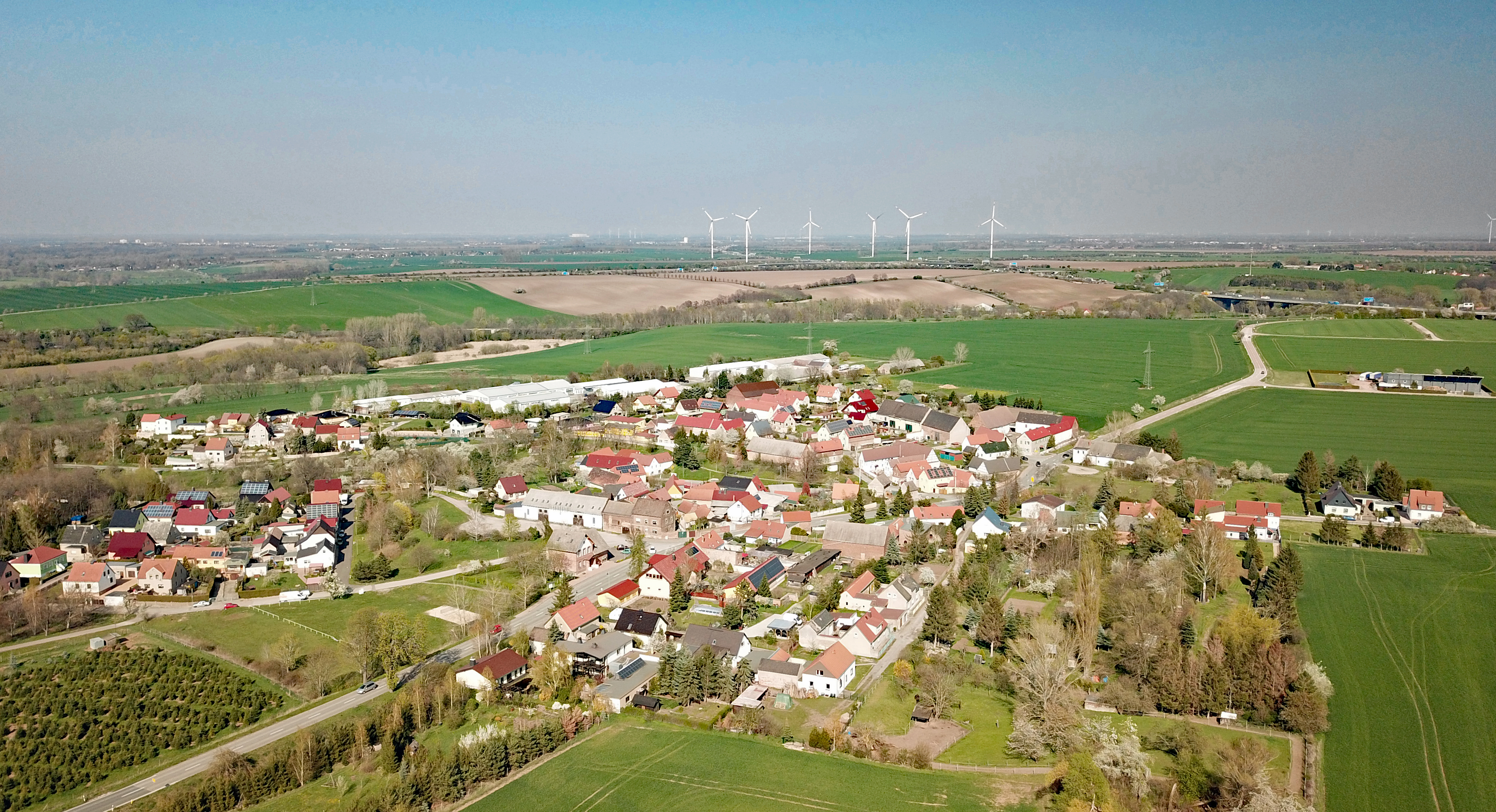 Lösau (Lützen, Saxony-Anhalt, Germany)